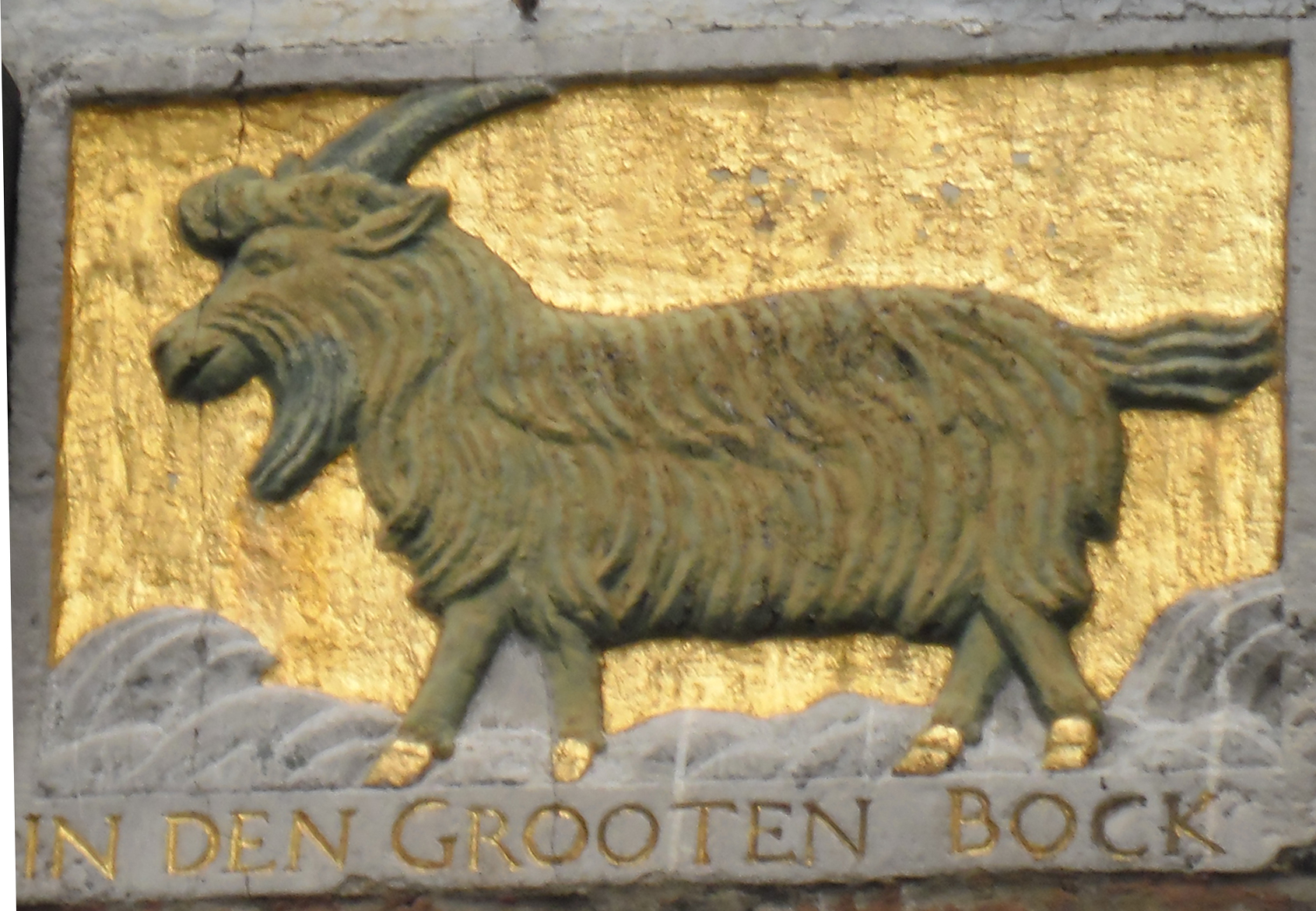 "In den Grooten Bock" National monument no. 27430 - Muntstraat 47, Maastricht, The Netherlands